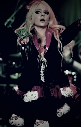 Avril Lavigne - Hello Kitty (Live at Casino Rama